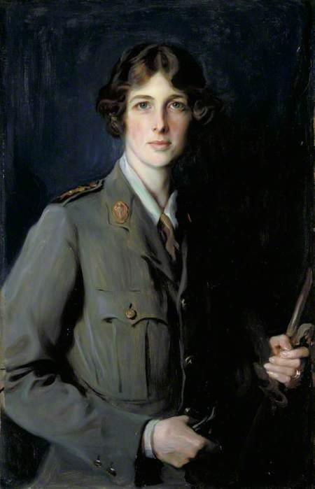 Edith Vane-Tempest-Stewart (née Chaplin), Marchioness of Londonderry (1878-1959) wearing the uniform of the Women’s Auxiliary Army Corps